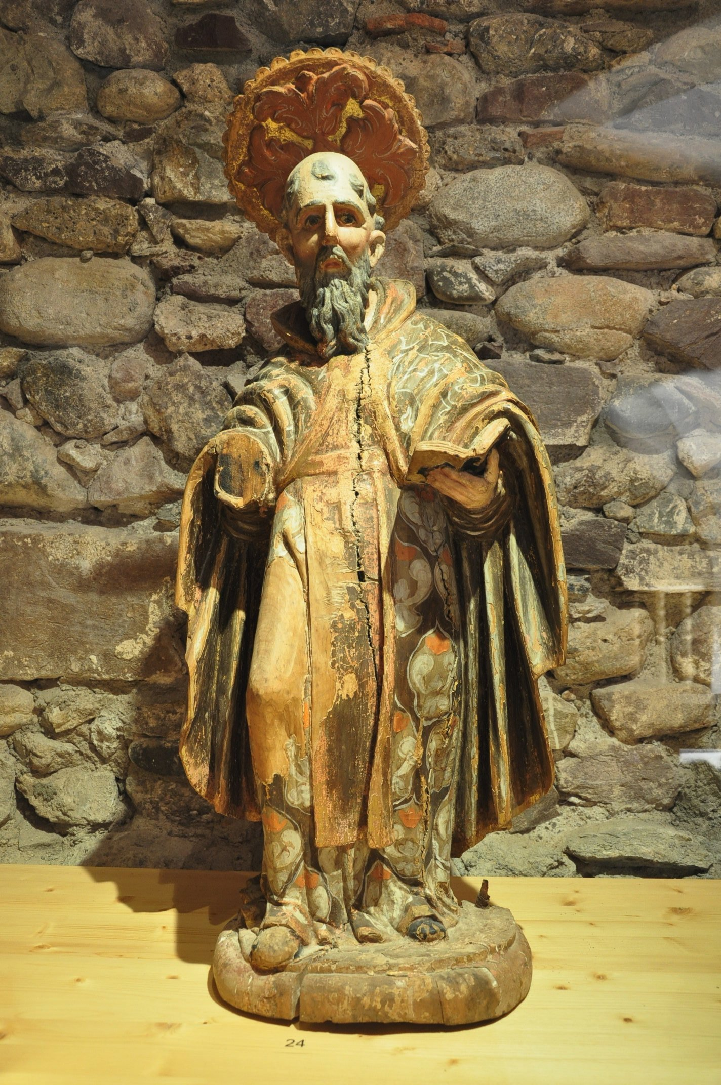 18th century statue of Saint Anthony the Great from the church of Gotarta, a village in the municipality El Pont de Suert (Alta Ribagorça district, Catalonia, northern Spain), exhibited in the "Museu d'Art Sacre de la Ribagorça" (Museum of Holy/Religious Art of the Ribagorça), located in the old parish church of El Pont de Suert.